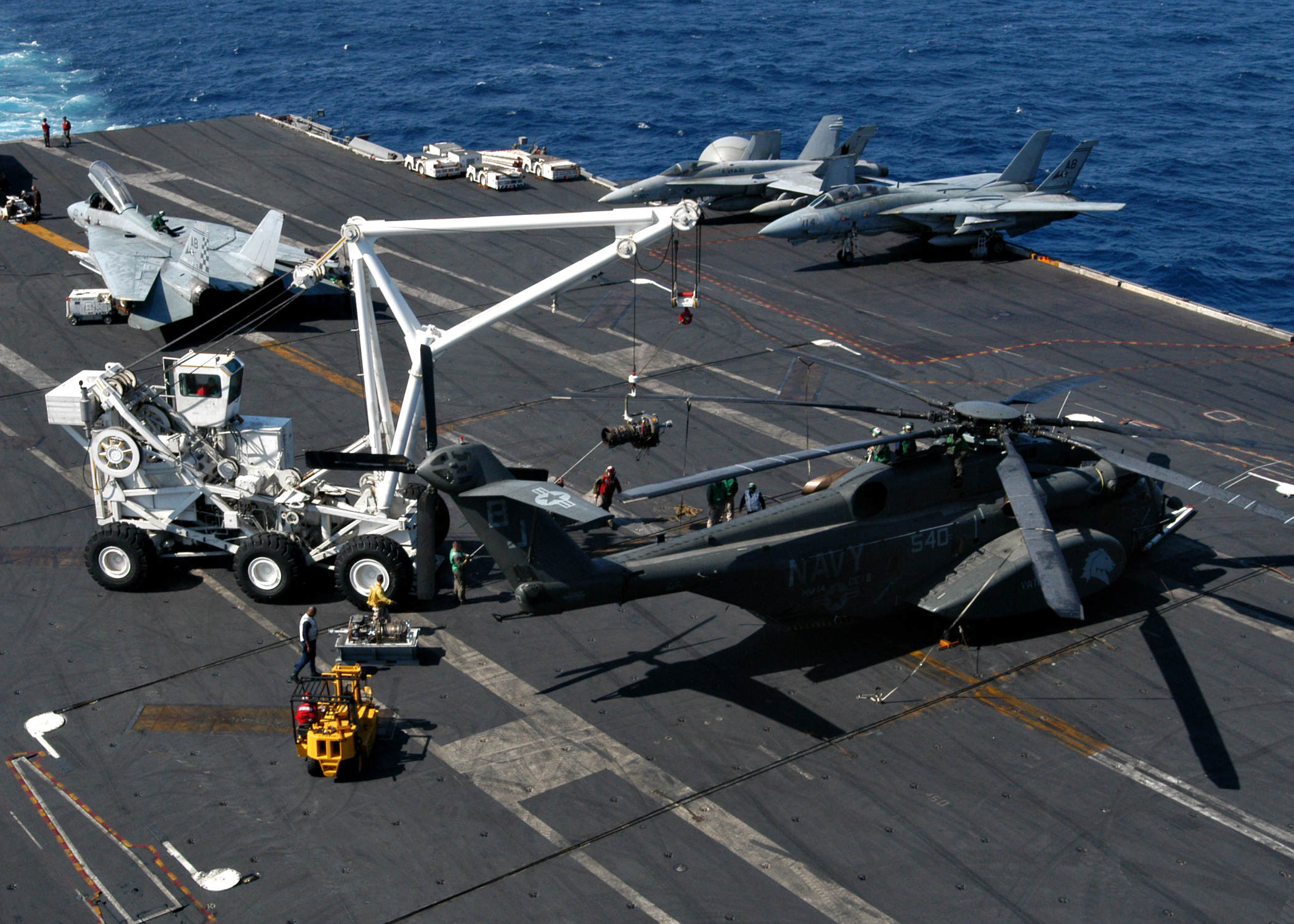 Mediterranean Sea (Oct. 09, 2003) -- Using the flight deck casualty crane, 'Tilly', the members of USS Enterprises #CVN-65# Crash and Salvage Team assist in removing a jet engine from a CH-53 'Sea Stallion' attached to Helo Mine Countermeasures Squadron One Four (HM-14).U.S. Navy photo by Photographer's Mate 3rd Class Lance H. Mayhew. (RELEASED)